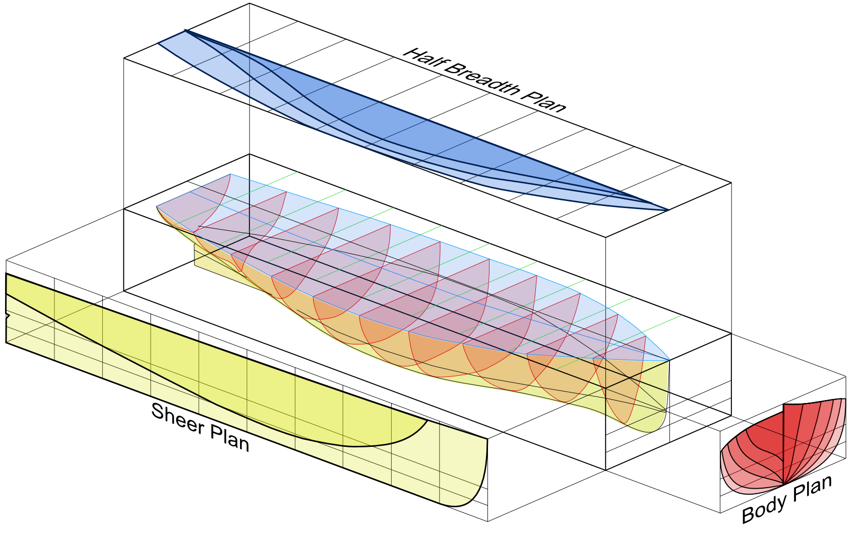 Ship lines (3D_design) 正面正図（Body Plan）、側面図（縦裁線図、Sheer Plan）、水線面図（半幅平面図、Half Breadth Plan、Water Line）